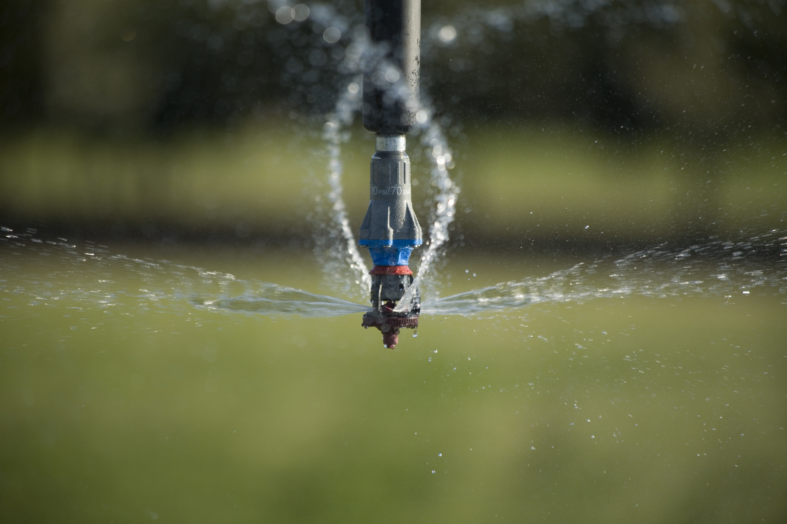 Photograph of a center pivot Nelson A3000 rotator Sprinkler. This is an accelerator type applicator that rotates. Different rotation rates are available for different water application needs along the pivot.